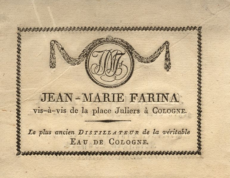 Johann Maria Farina's business card (1746)